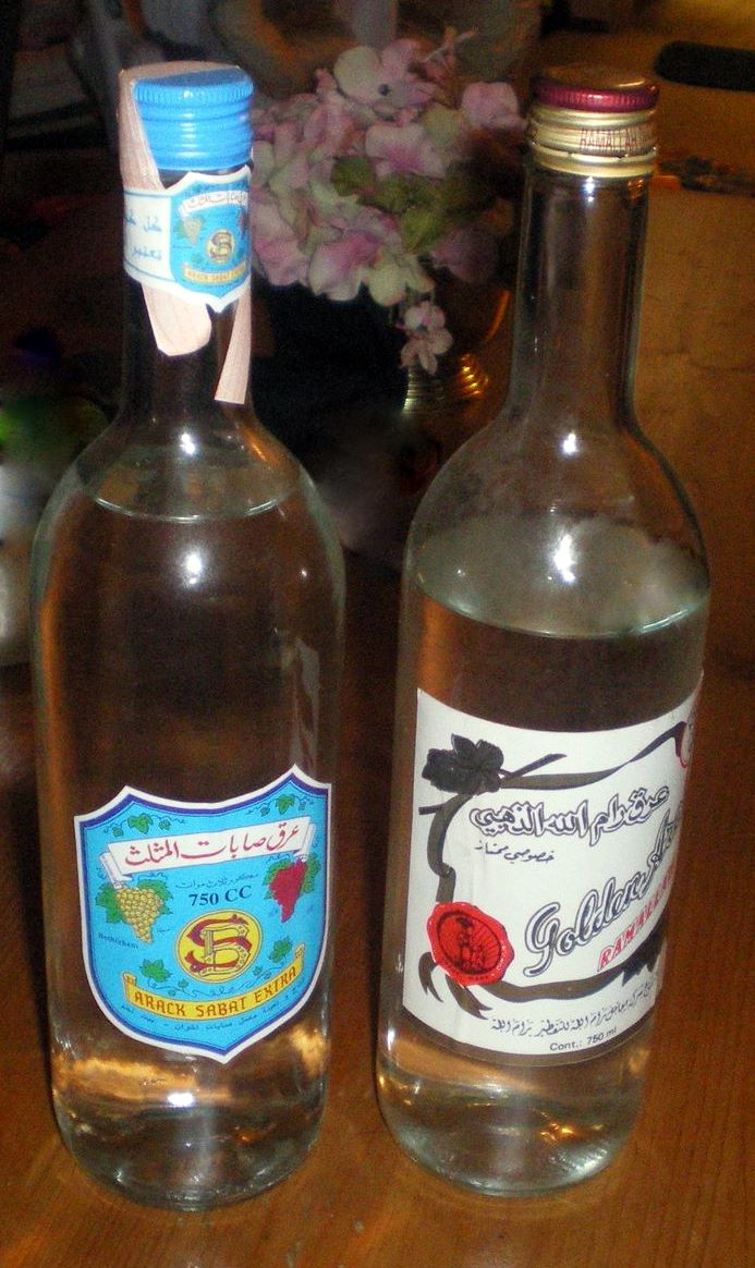 Two brands of Palestinian Arak: Sabat Arak and Ramallah Golden Arak